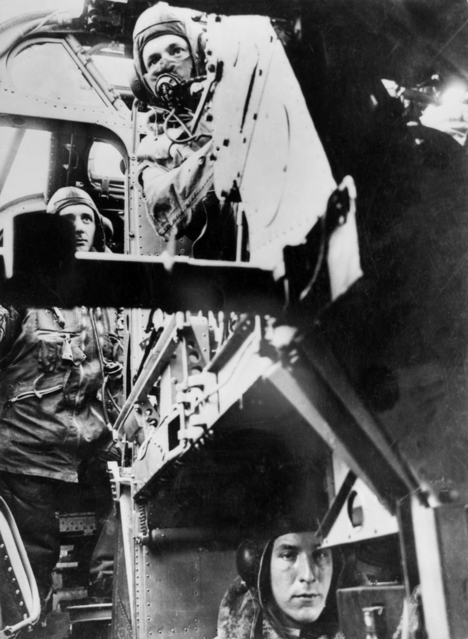 AWM caption : 1942-07-06. ON AN AERODROME A NUMBER OF 4-ENGINED HALIFAX BOMBERS WERE BEING TUNED UP FOR A RAID OVER ENEMY TERRITORY. THIS ROLLS ROYCE MERLIN ENGINED PLANE HAS A WING SPAN OF 99 FEET, LENGTH OF 70 FEET, HEIGHT OF 22 FEET, AND CARRIED A GOOD BOMB LOAD. IT HAS RAIDED TARGETS IN ALL PARTS OF GERMANY AND NORTHERN ITALY AND HAD CONSPICUOUS SUCCESS DURING A RAID ON BERLIN. ONE OF THE FEATURES OF THIS GIANT BOMBER IS THE FACT THAT QUITE A TALL MAN CAN WALK THROUGH THE MACHINE PERFECTLY UPRIGHT. INTERIOR SHOWING: THE PILOT (TOP), SECOND PILOT (LEFT) AND "SPARKS" UNDERNEATH.